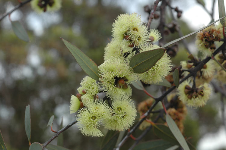 Flowers of Eucalyptus desmondensis in the Mt Annan Botanic Gardens, New South Wales